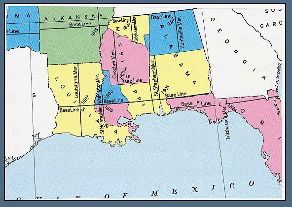 U.S. Bureau of Land Management map showing principal meridians and base lines used for cadastral surveys.